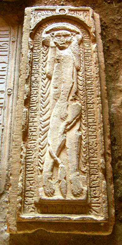 The gravestone of Elikum son of Prince Tarsayich Orbelian at Noravank Monastery